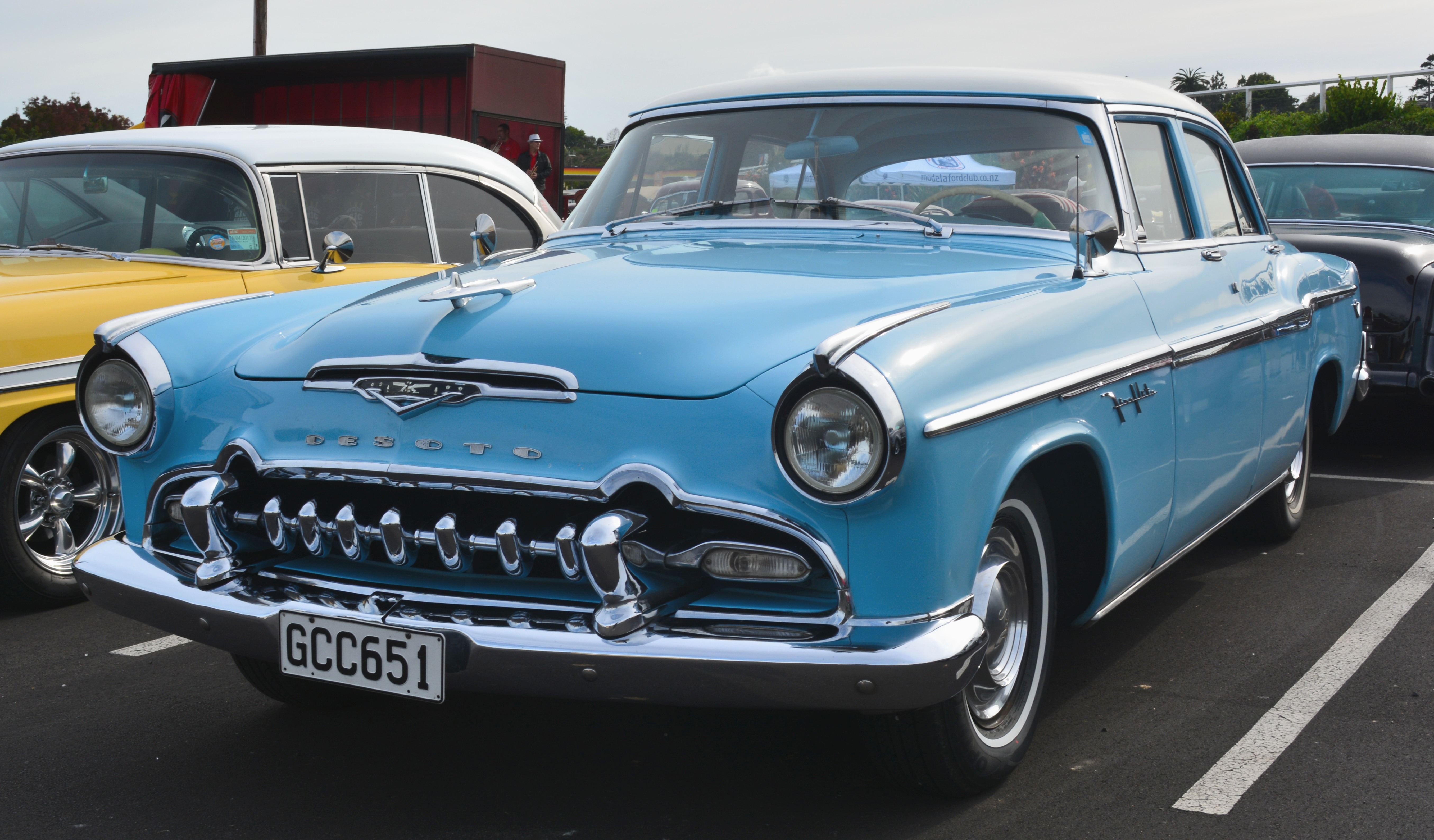 Waiuku South Auckland,NZ